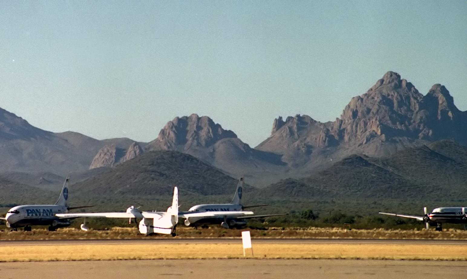 Pinal Airpark, Marana, AZ